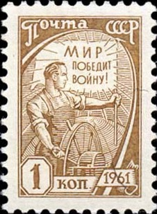 Stamp of the Soviet Union, 1961, CPA 2510.